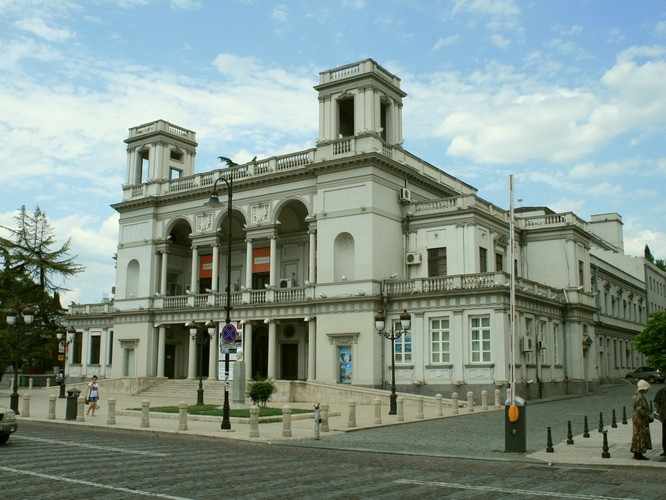 Building on Aghmashenebeli avenue 129